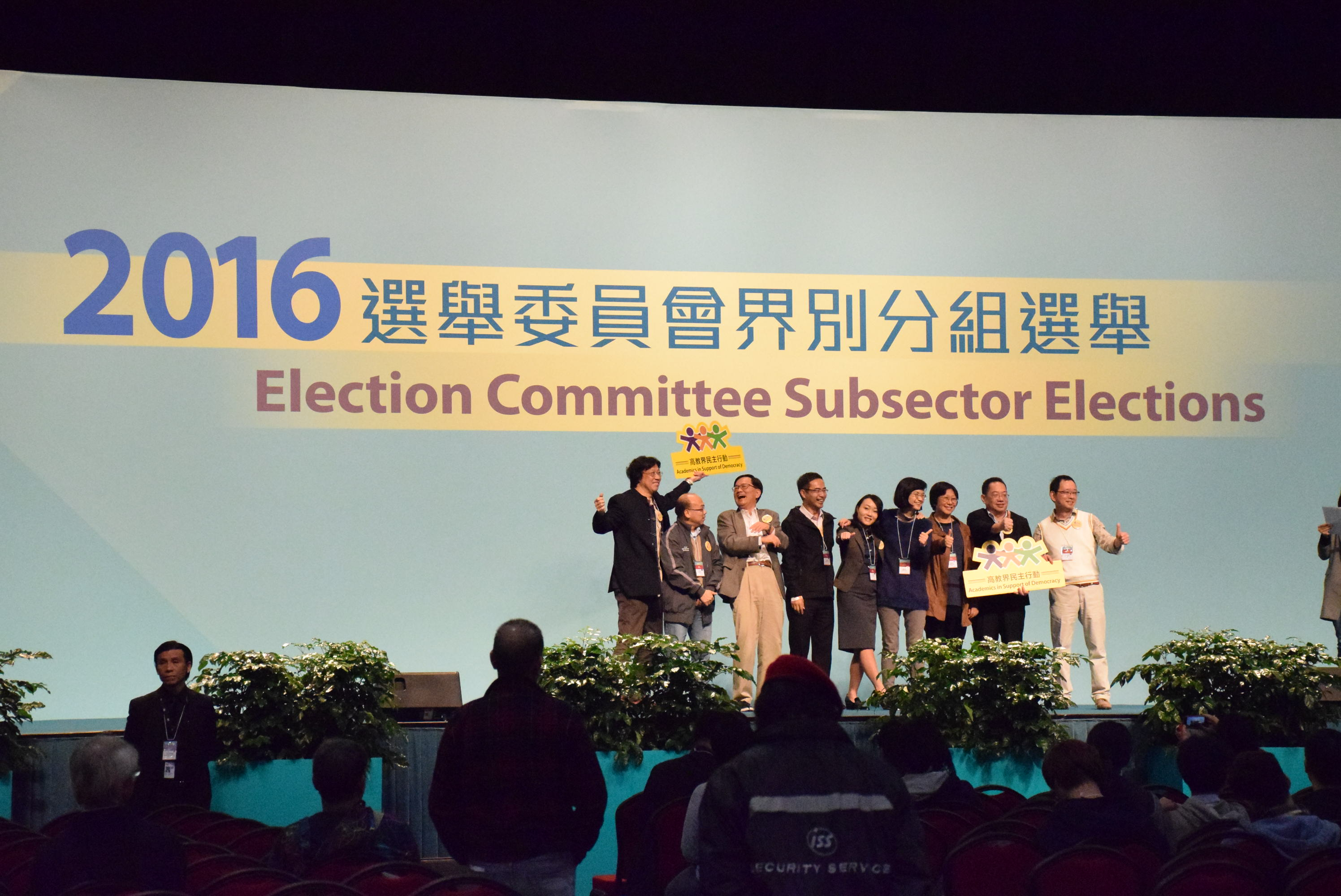 2016年香港選舉委員會界別分組選舉